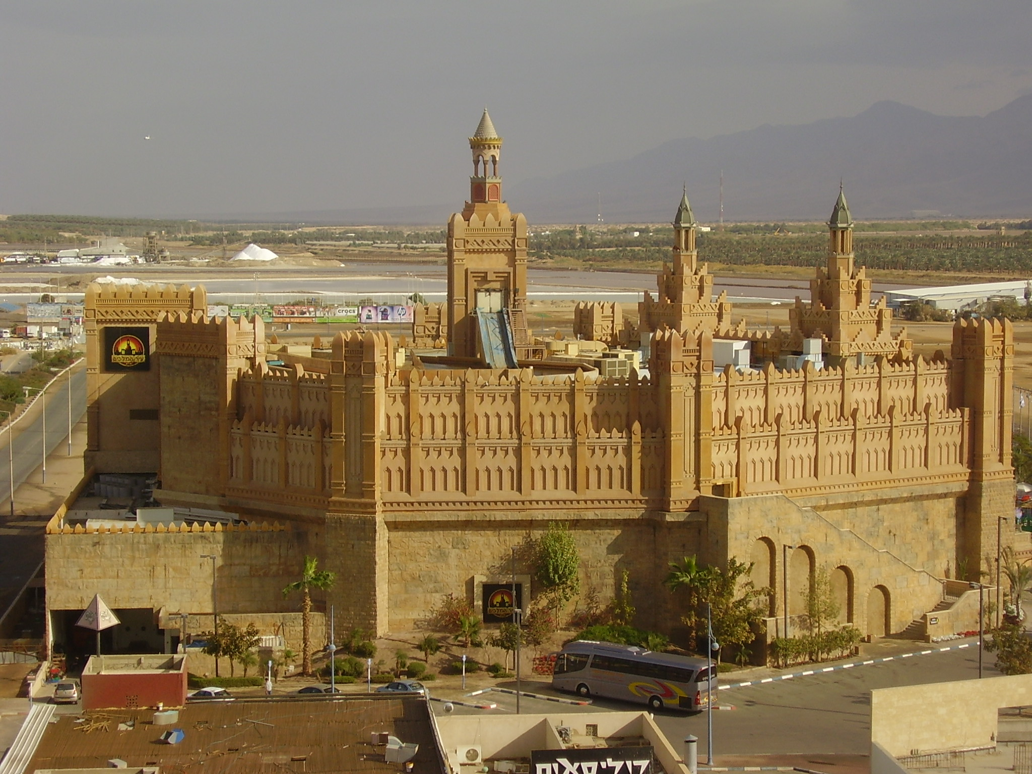 Kings City in Eilat